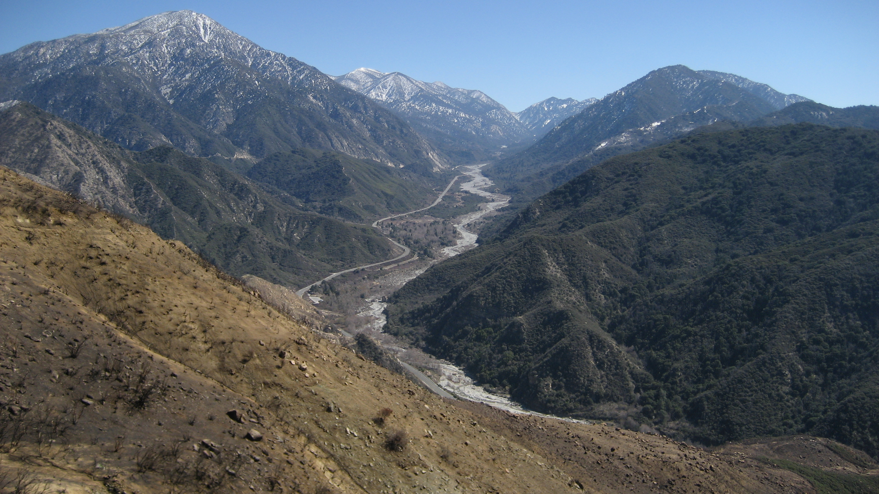 Mill Creek from Santa Ana River Trail. San Bernardino National Forest